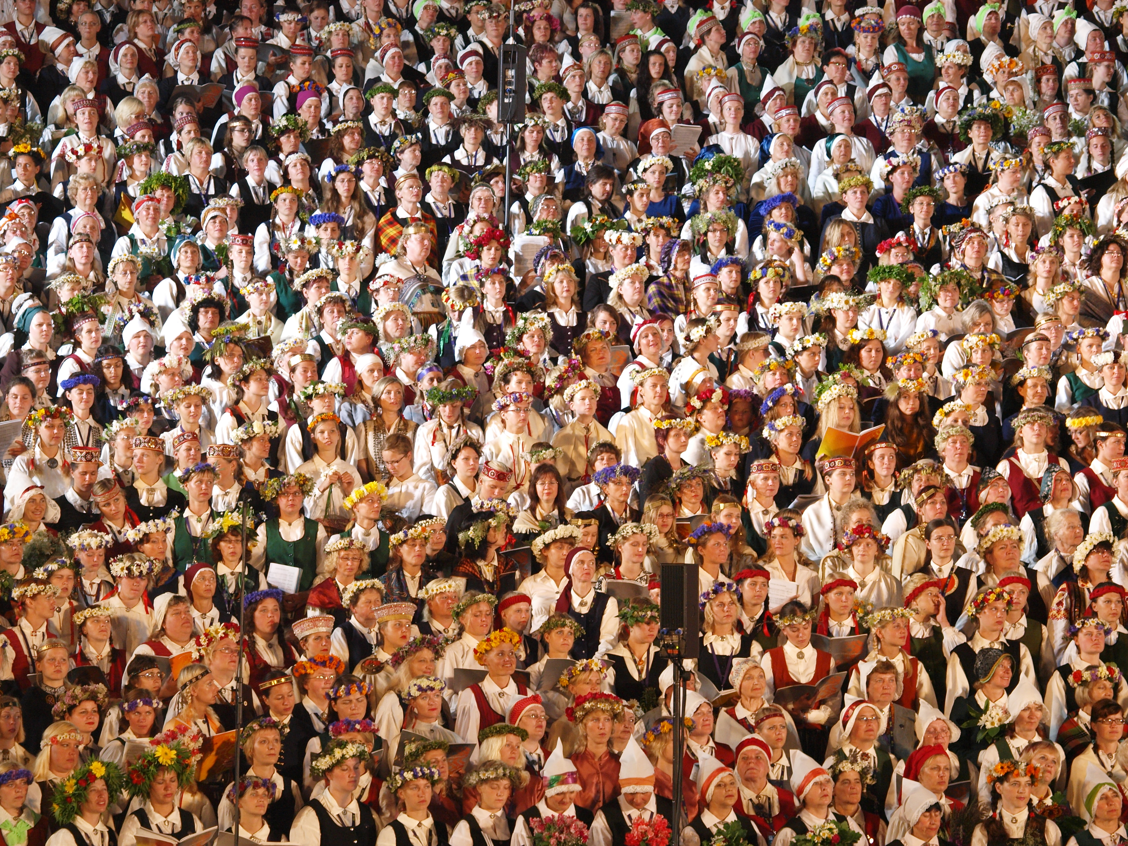 It is traditional Latvian festival. More information on